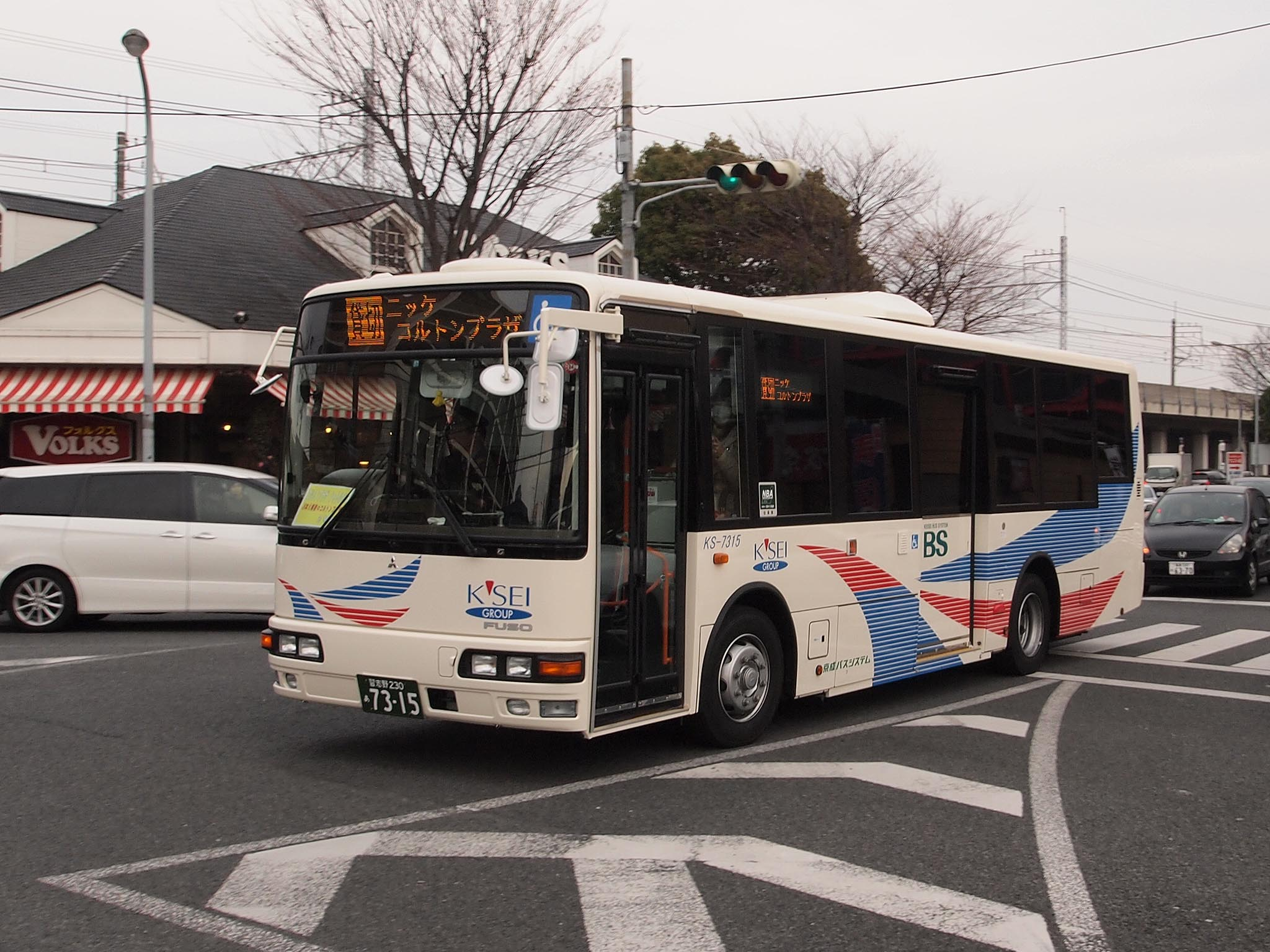 Fleet of Keisei Bus System, as shuttle bus of Nikke Colton Plaza bound for Motoyawata Station. Model: Mitsubishi Fuso Aero Midi SKG-MK27FH License plate; CBN230 A7315 Place: Nikke Colton Plaza, Ichikawa City, Chiba Japan